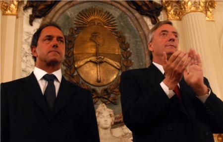 The president of Argentina, Néstor Kirchner (right) and the vice-president Daniel Scioli.